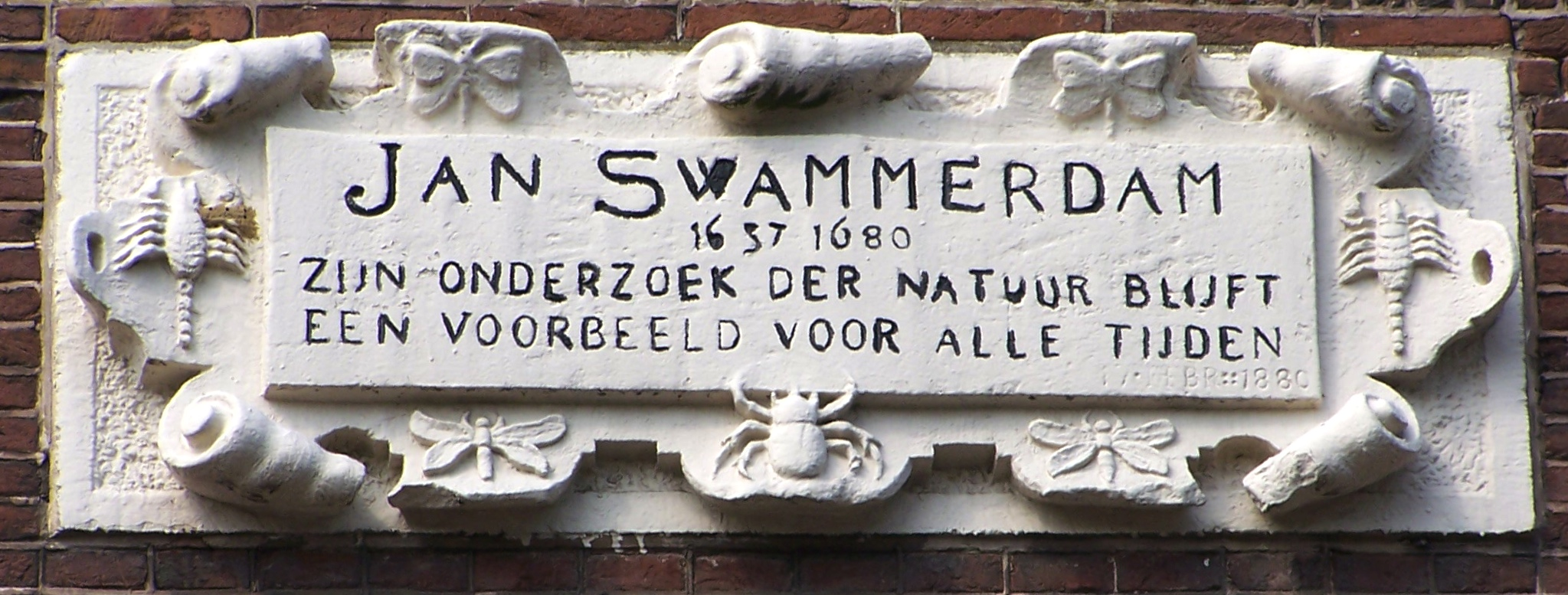 Oudeschans 18, detail (plaque)